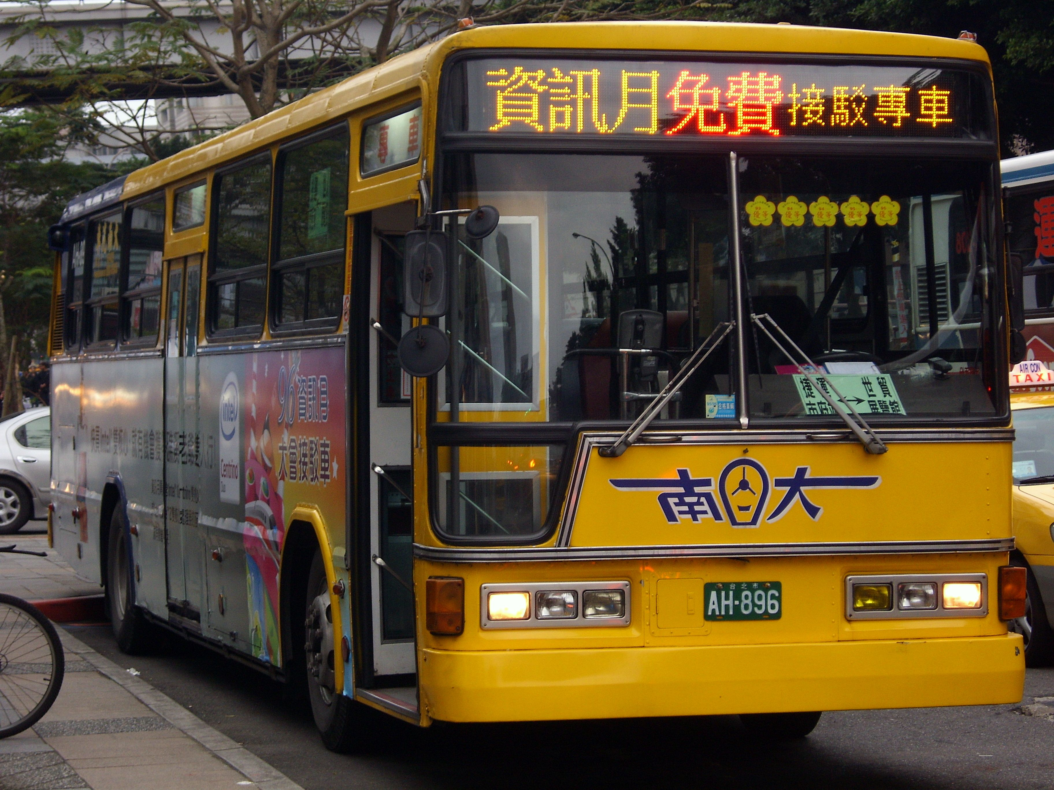 2007 Taipei IT Month: Shuttle Bus by Da-nan Bus Co., Ltd.